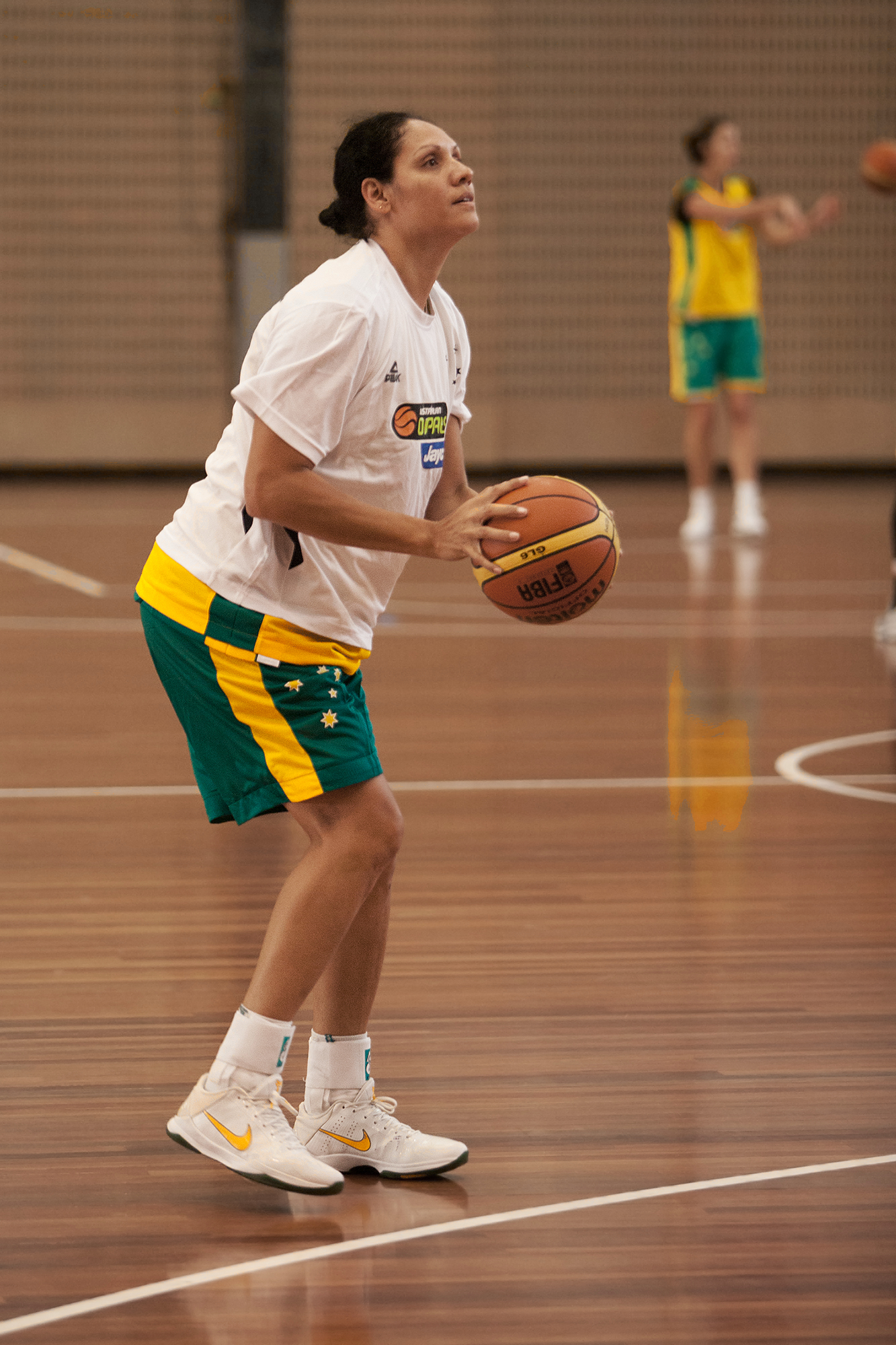 Member of the Opals, Canberra, Australia.